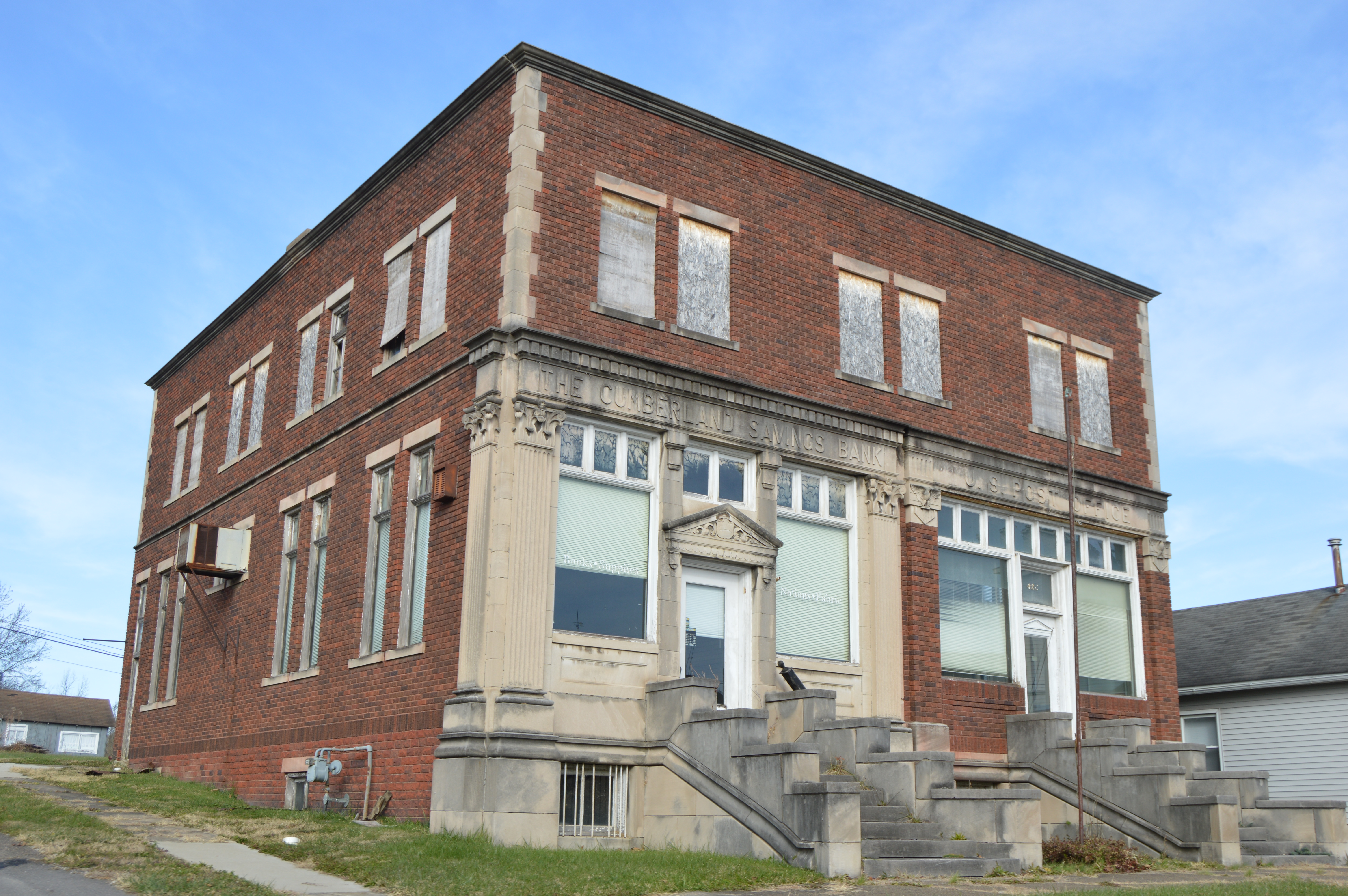 Western side and front of the former Cumberland Savings Bank (left side) and post office (right side), located on Main Street (State Routes 146/340) at Bank Street in Cumberland, Ohio, United States.